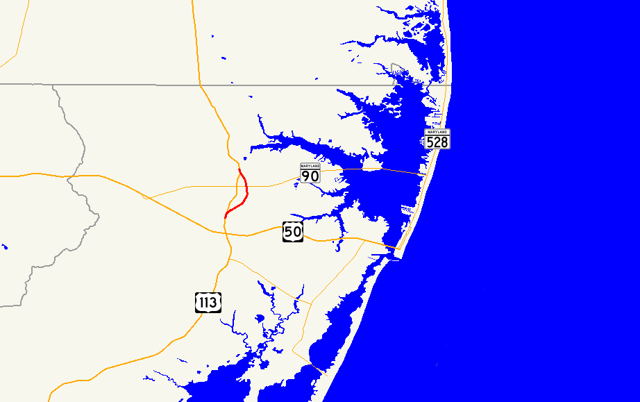 Map of Maryland Route 575